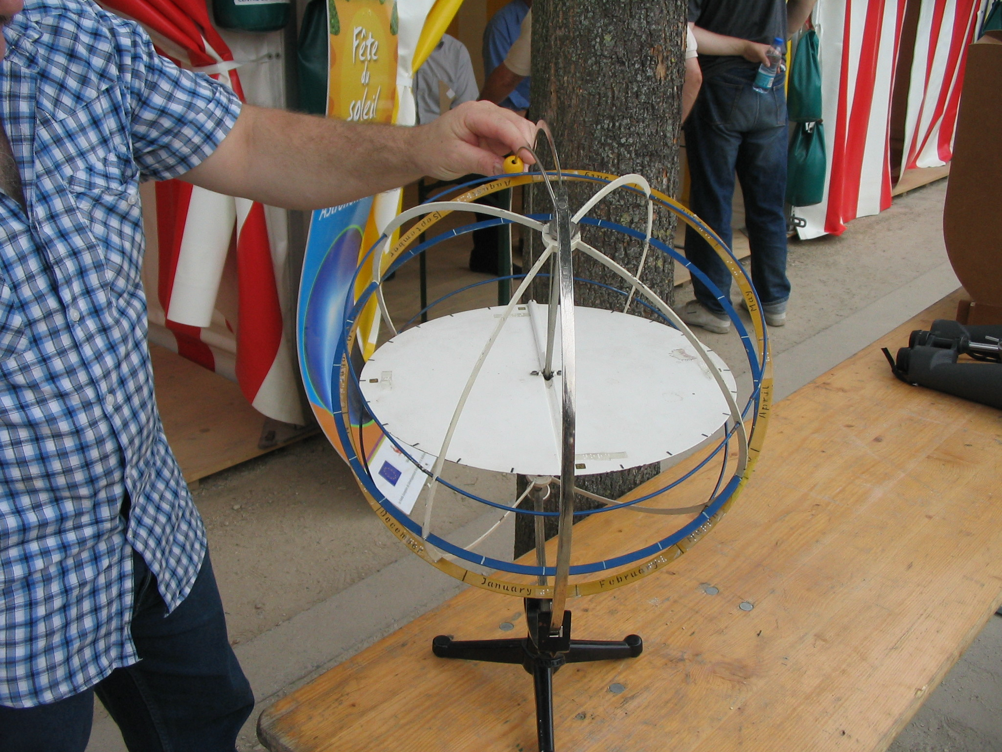 Modern armillary sphere used to teach astronomy